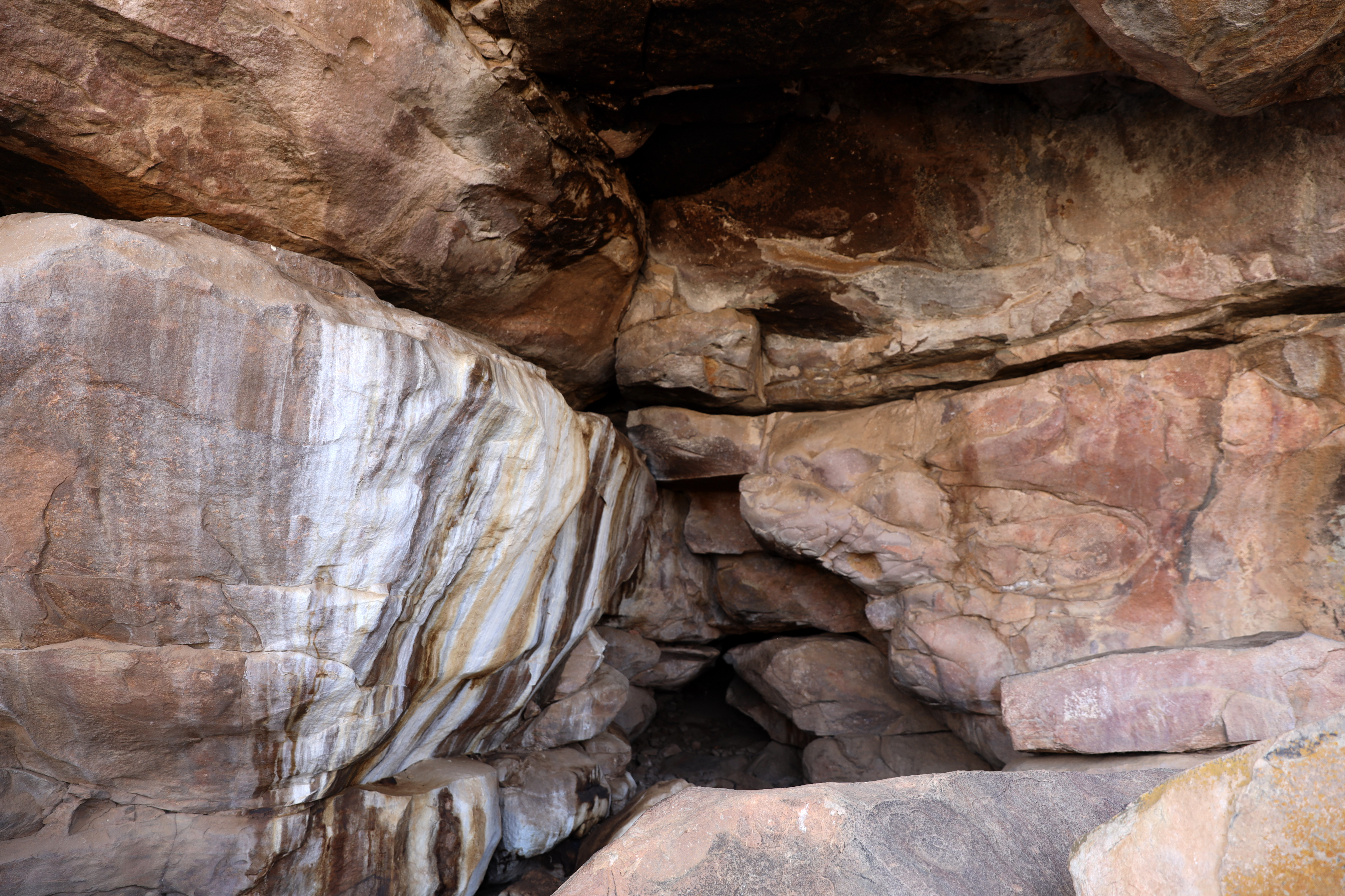 The Mmasechele cave was the hidding spot for the third wife of chief Sechele during the Matebele wars. Sechele was the leader of the local Bakwena tribe.